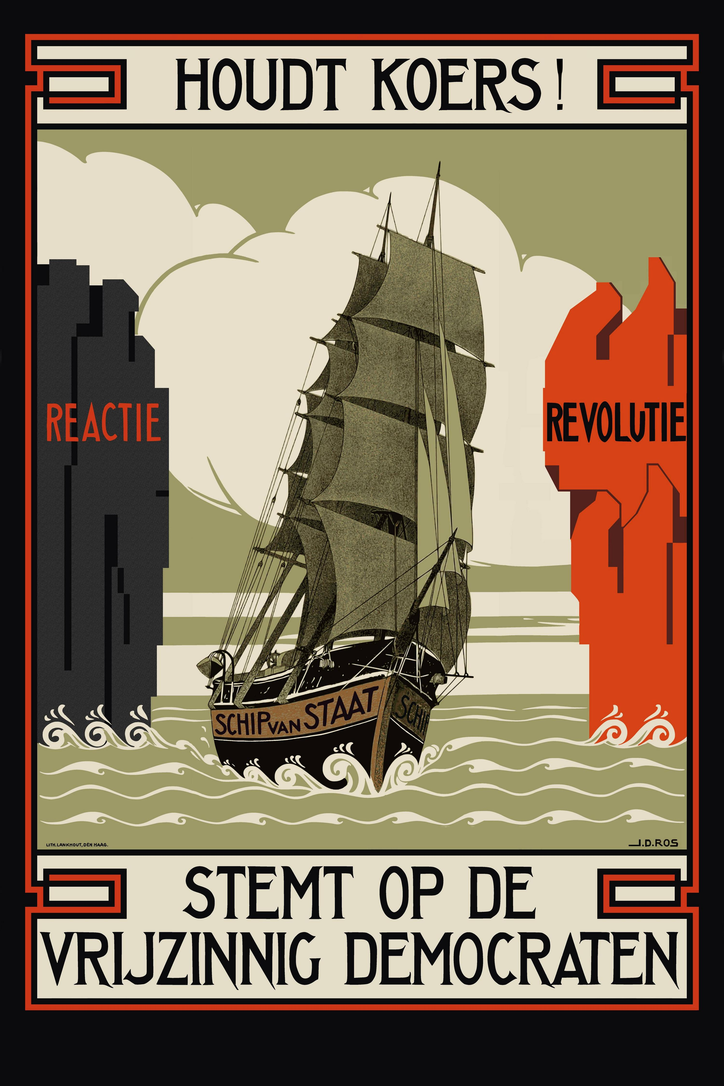 1922 Election Poster produced by Free-thinking Democratic League in the Netherlands.